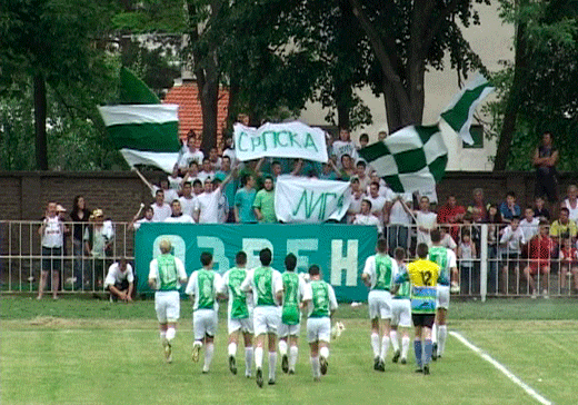 Fudbalski klub Ozren Sokobanja